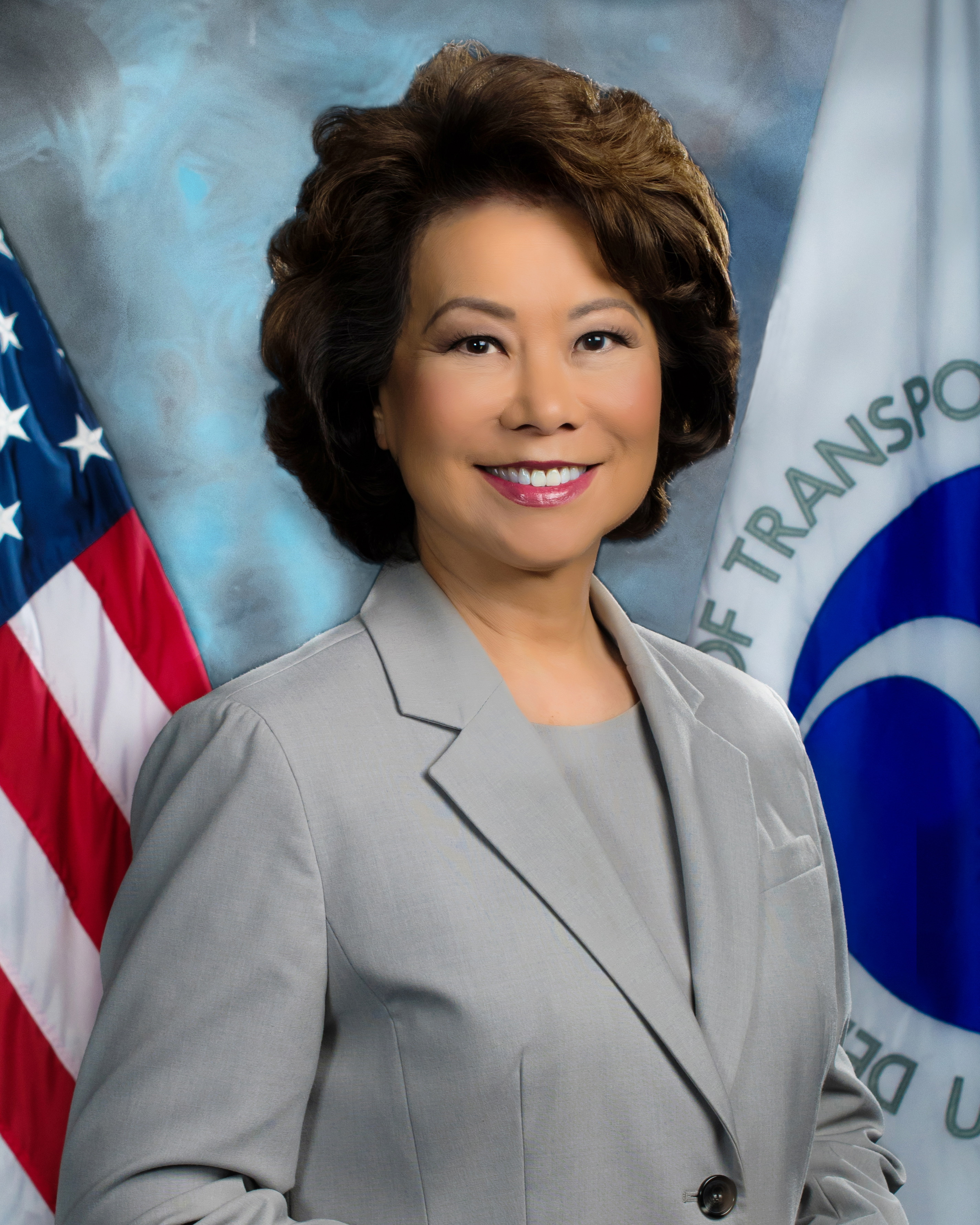 Elaine Chao